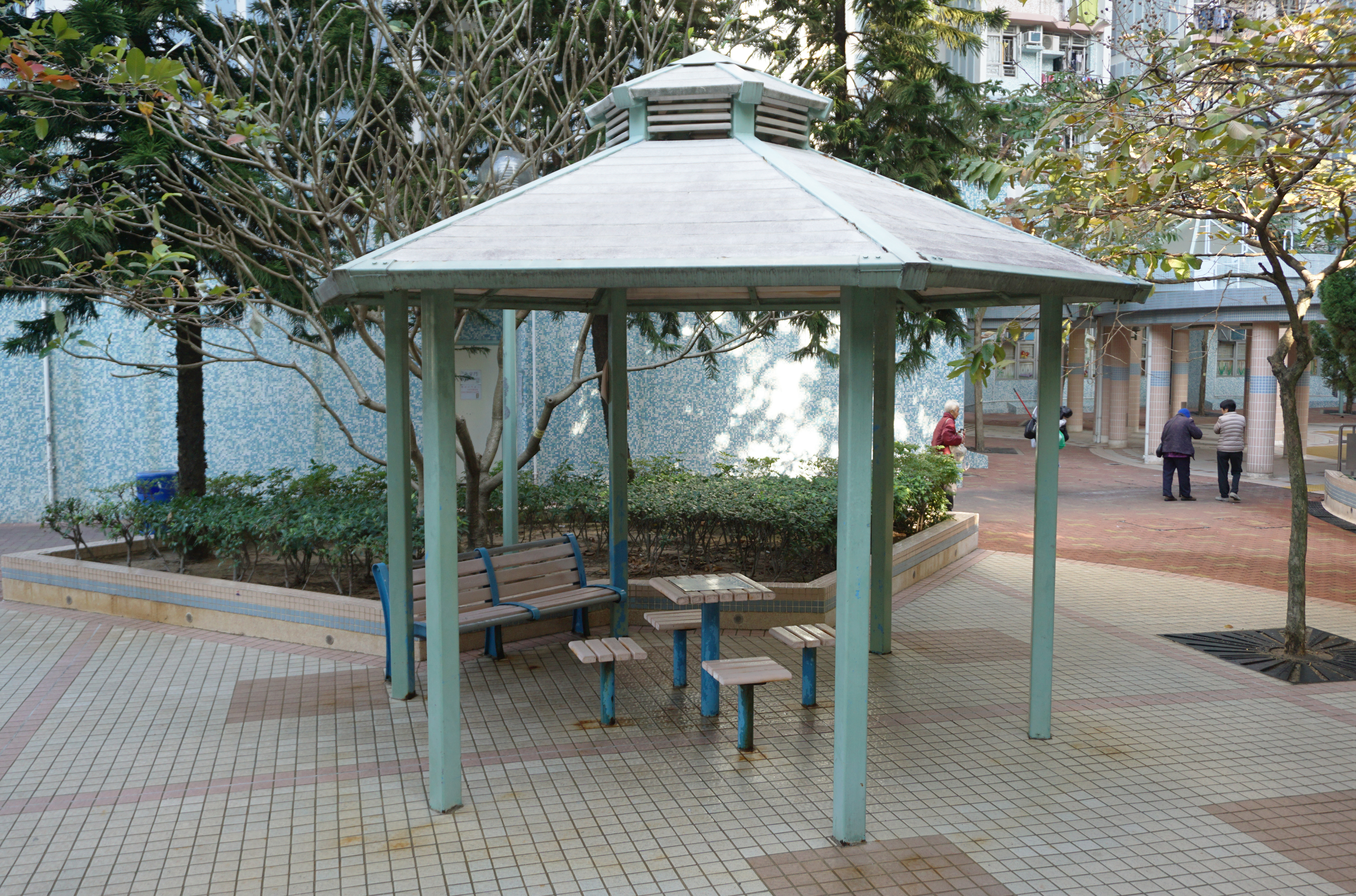 Cheung Wang Estate in Tsing Yi, Hong Kong.